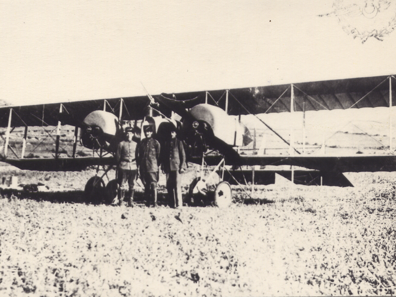 Caudron G.4 in Ottoman service (1917-1918)